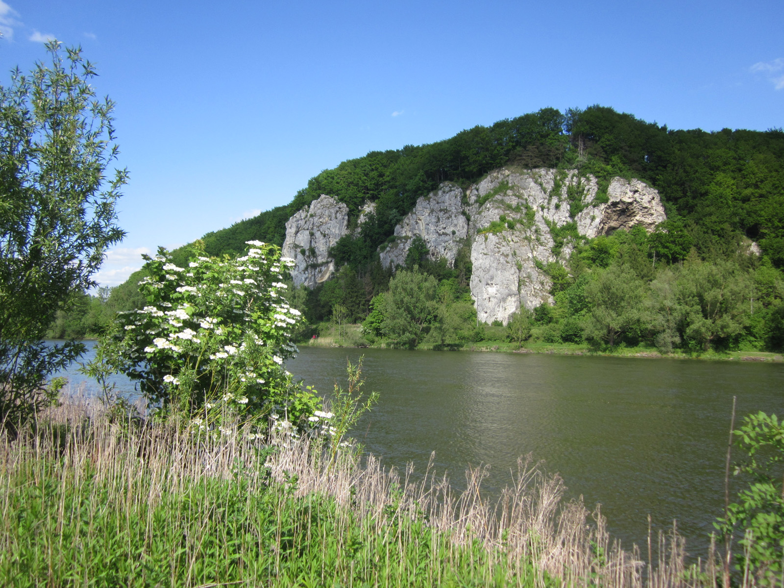 Danube clothe to Alkofen, Bad Abbach